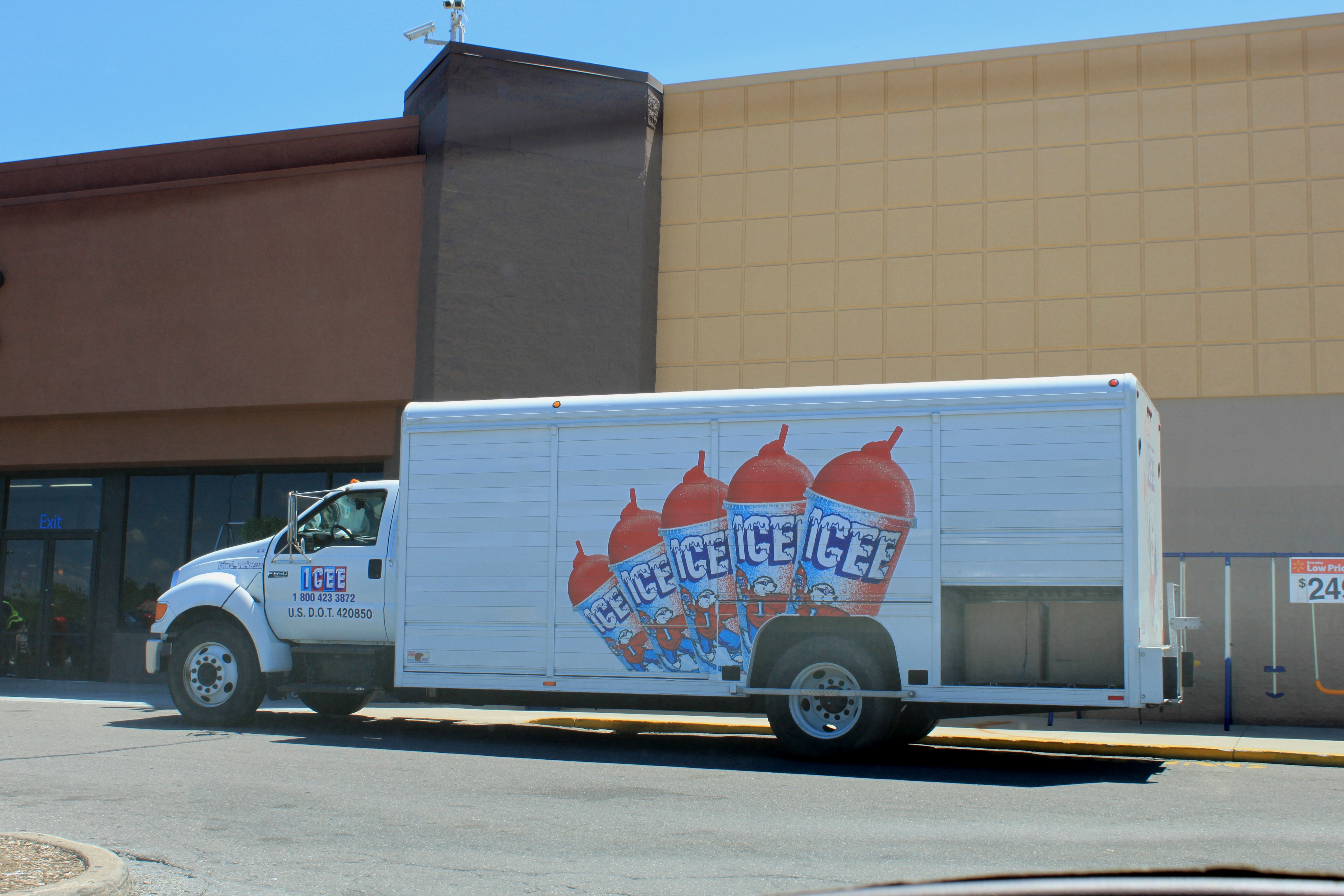 ICEE delivery truck, Walmart store, 2515 Ellsworth Road, Ypsilanti Township, Michigan